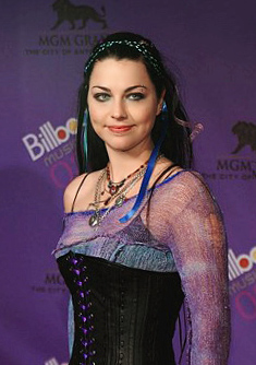 Amy Lee of Evanescence at the 2003 Billboard Awards.